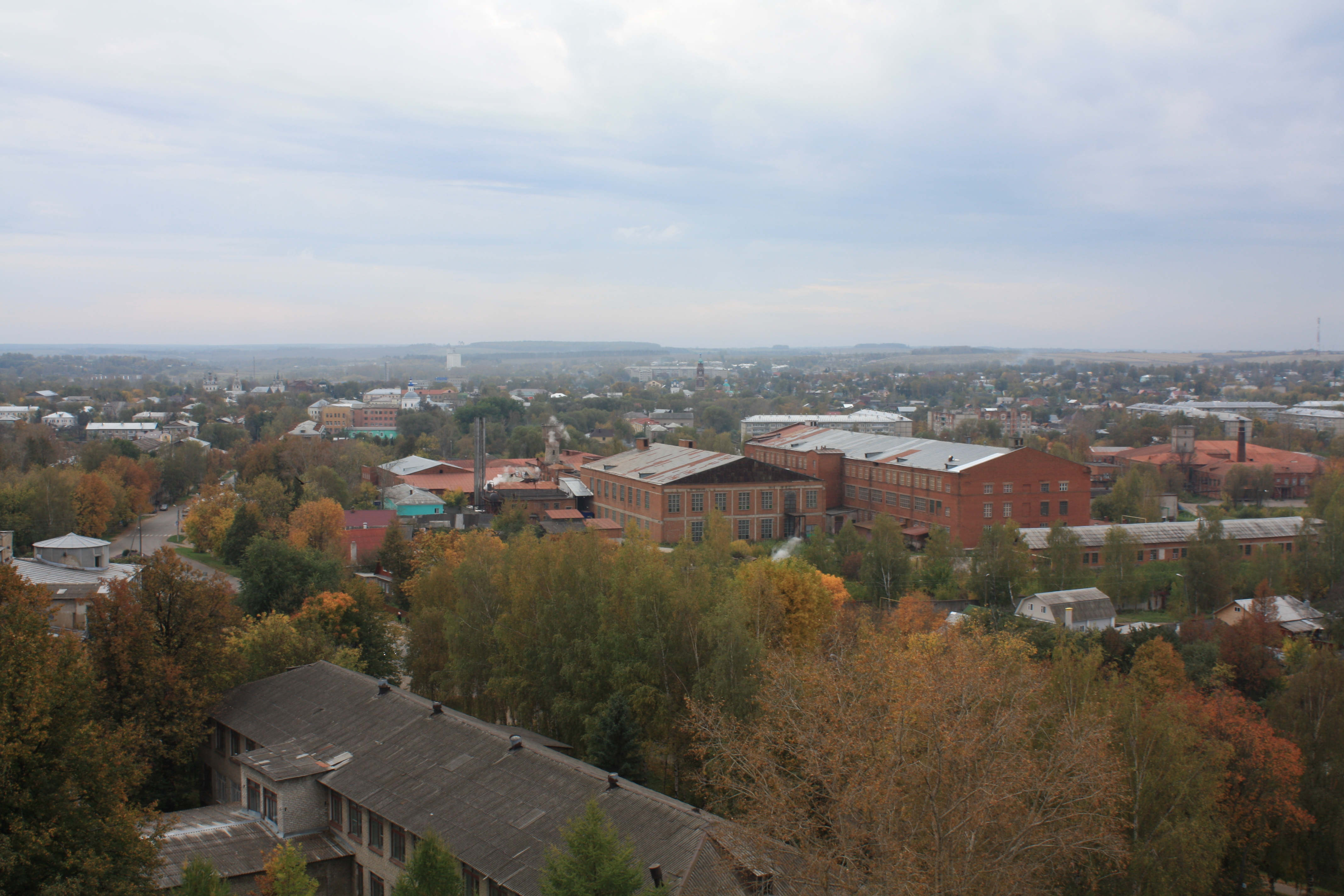 View of Yuryev-Polskiy from the belltower of St. Peter and Paul Monastery